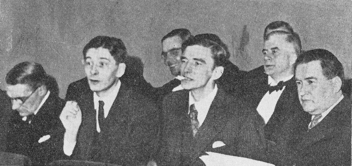 Swedish-speaking authors from Finland in the 1930s. From right to left: Elmer Diktonius, Harald Hornborg, Olof Enckell, Rabbe Enckell, Gunnar Björling.